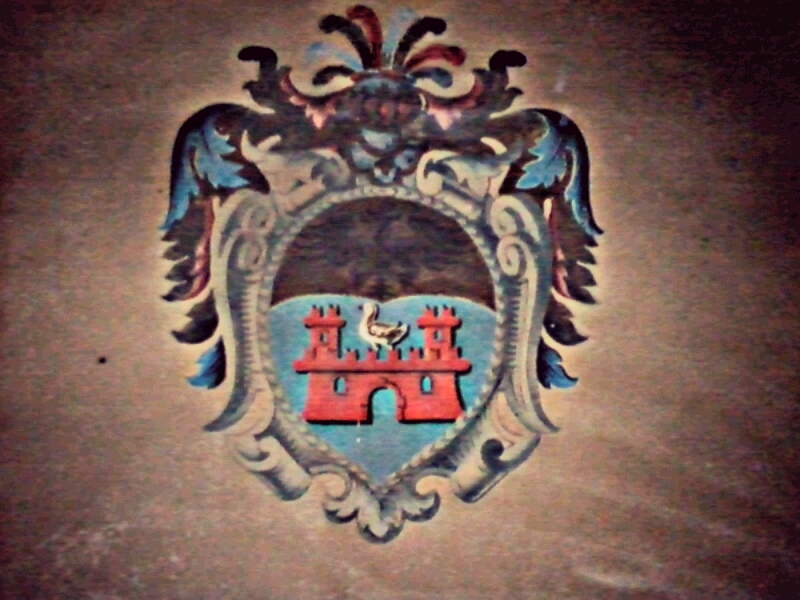 D'argento al castello aperto torricellato di due pezzi merlati alla ghibellina di rosso, sostenente sul mastio una cicogna di nero o un cigno di bianco e sormontato da un'aquila dello stesso, appoggiata alle due torri. Motto: SOLA FIDES SUFFICIT.